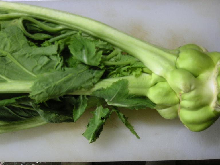 Tumida